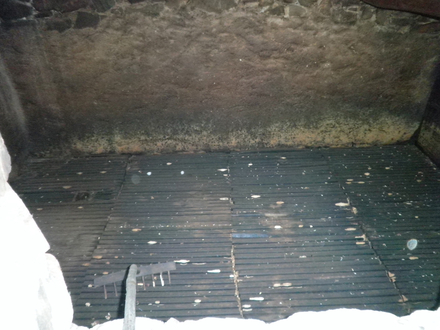 Upper floor of a house for drying chestnuts.